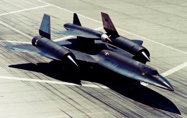 Cropped version of M21Ship2.jpg